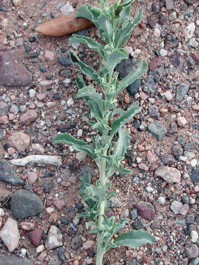 Atriplex elegans, Wheelscale Salt Bush.